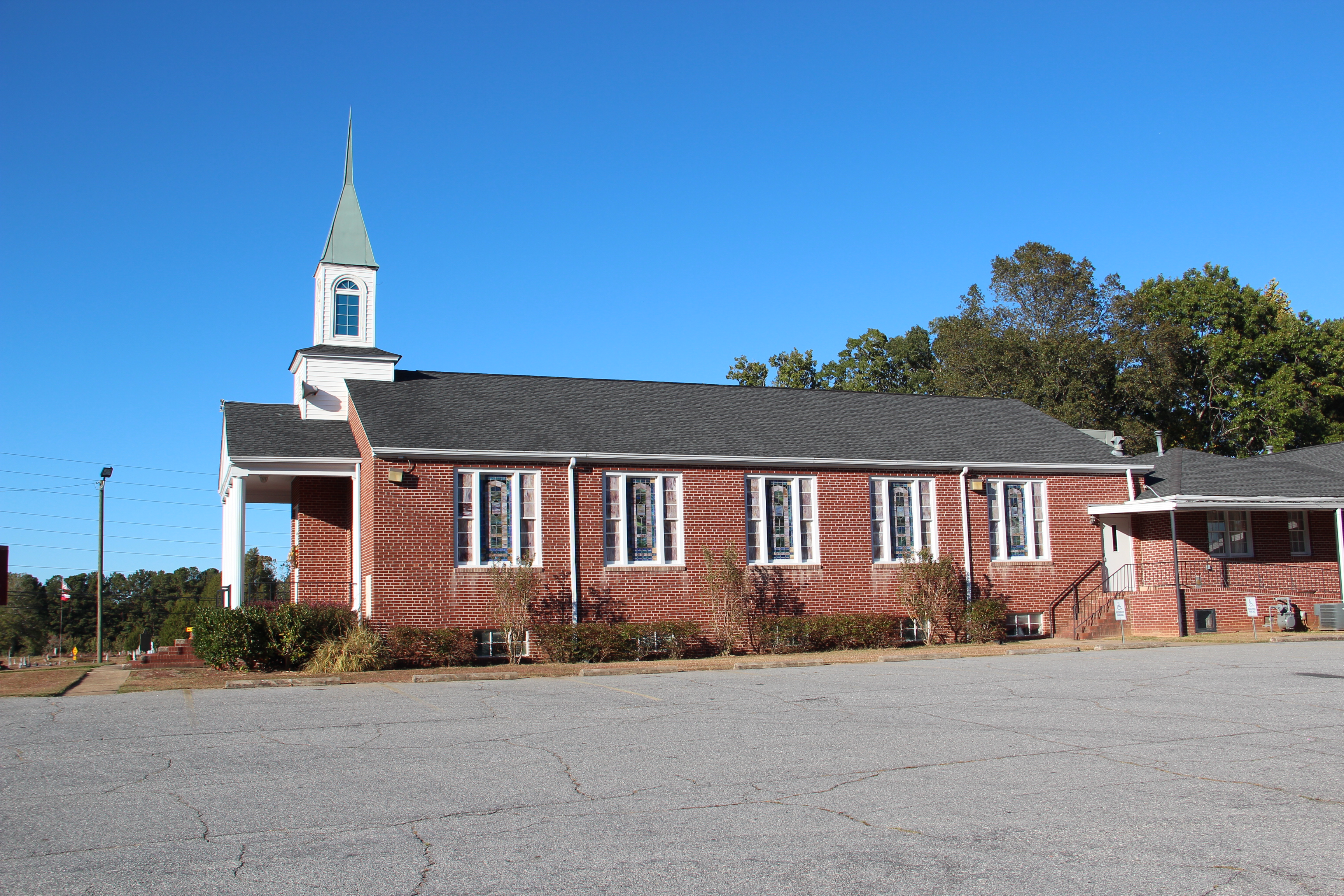 New Hope First Baptist Church, October 2016